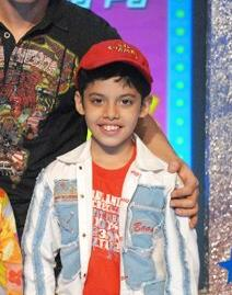 Indian actor Darsheel Safary